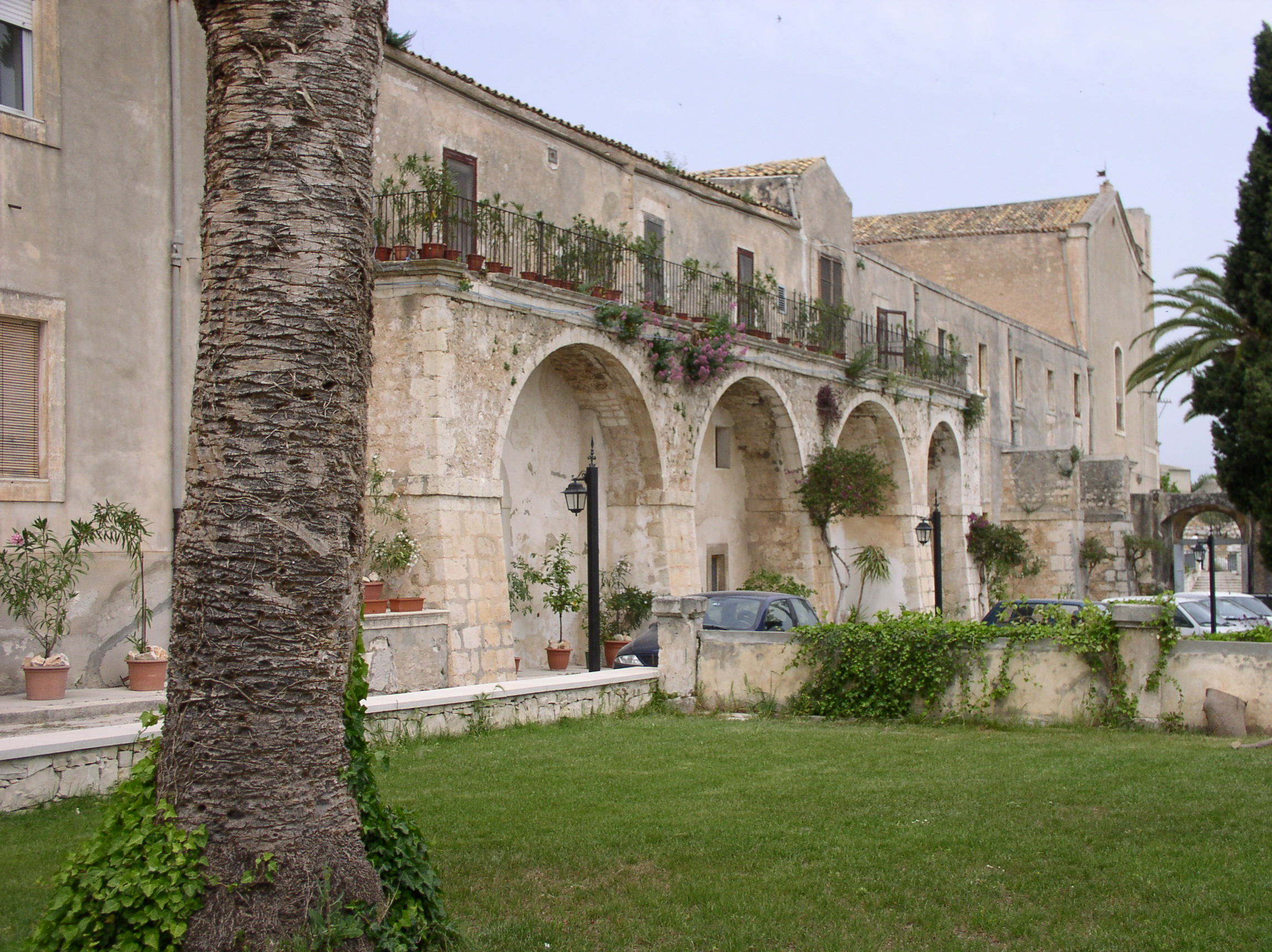 Author: Giuseppe Melfi